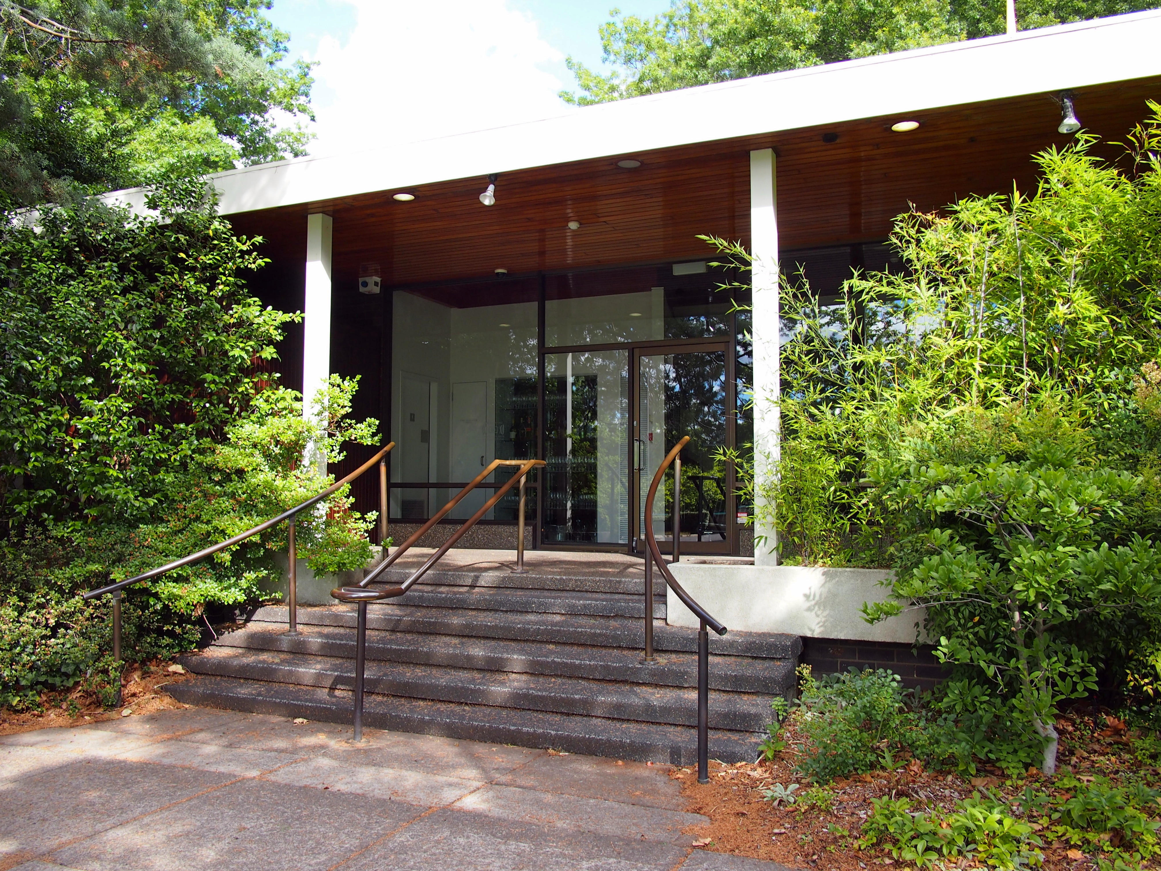 The western stairs of the Lobby Restaurant